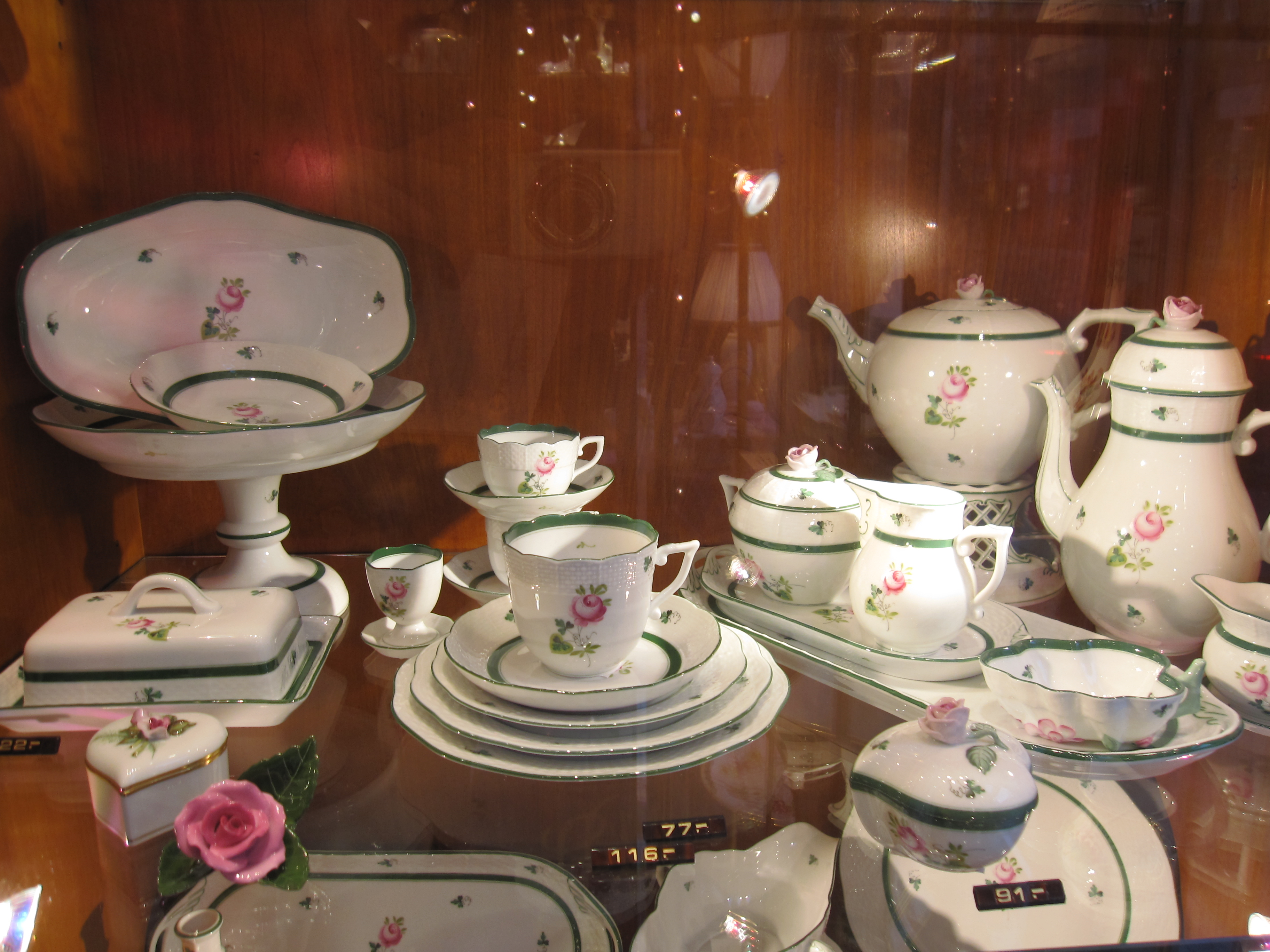 Herend porcelain shop in the Hotel Adlon in Berlin.